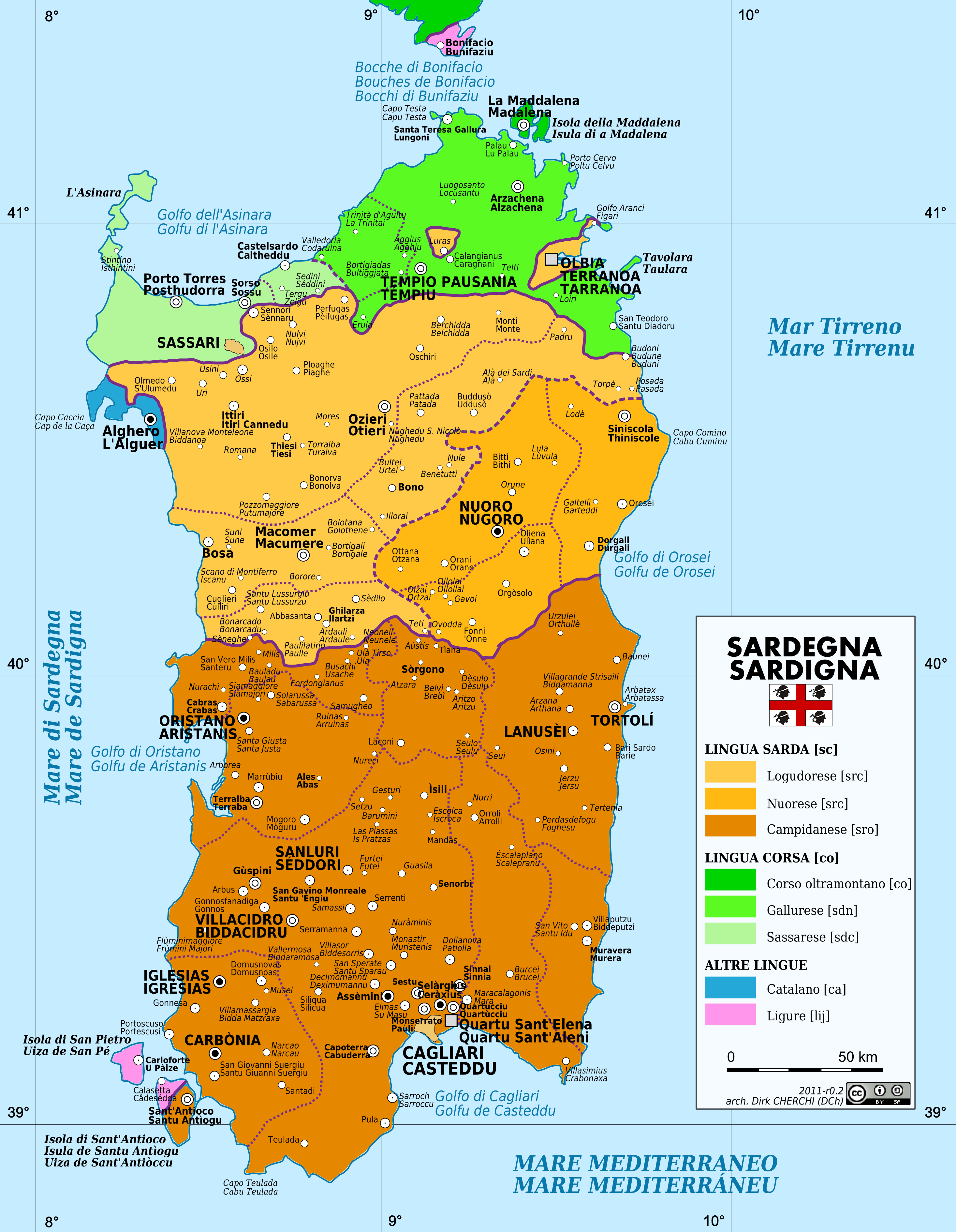 Linguistic map of Sardinia (bilingual)